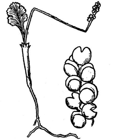 Botrychium_simplex